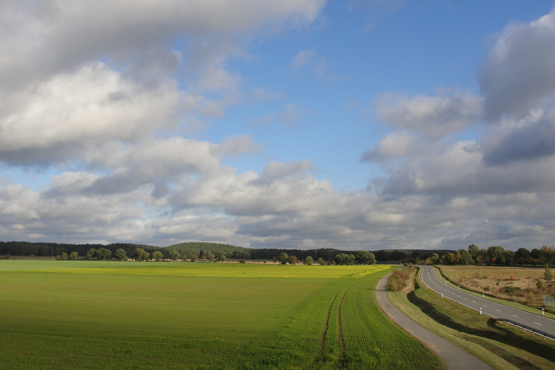 Landscape near Perleberg, Germany. The highest hill in the background is called Weißer Berg (white mountain). The road is the Bundesstraße 189 (federal highway 189).